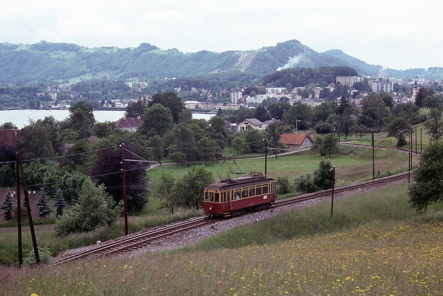 On the dual-gauge track above Gmunden.